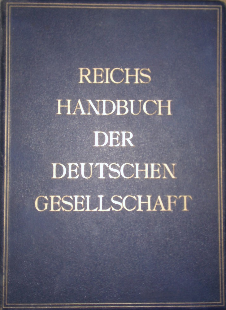 Reichshandbuch der deutschen Gesellschaft